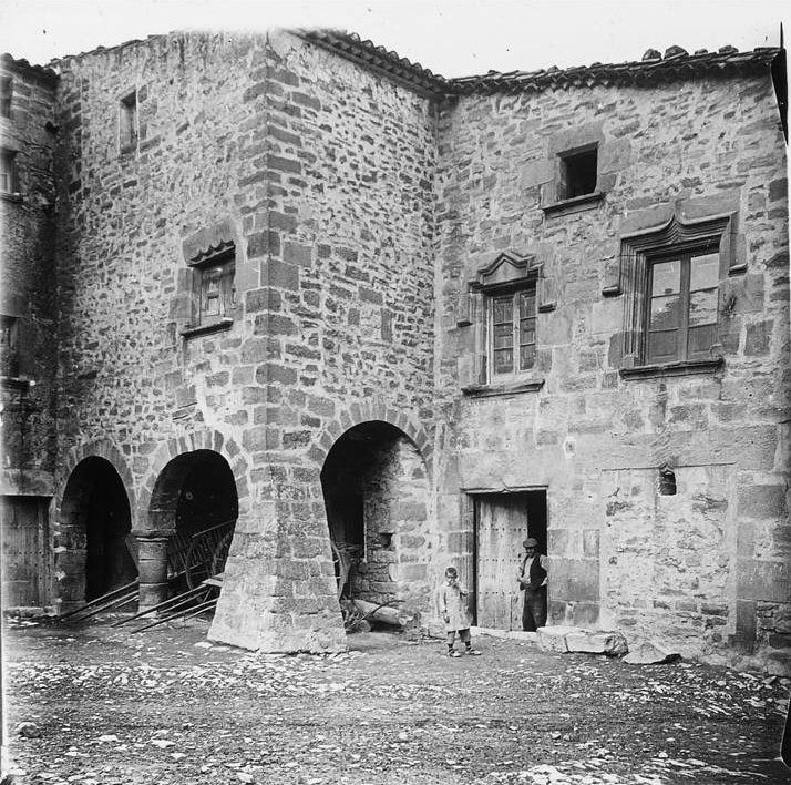 Plaça Major del Mercat, Vallfogona de Riucorb, 1916